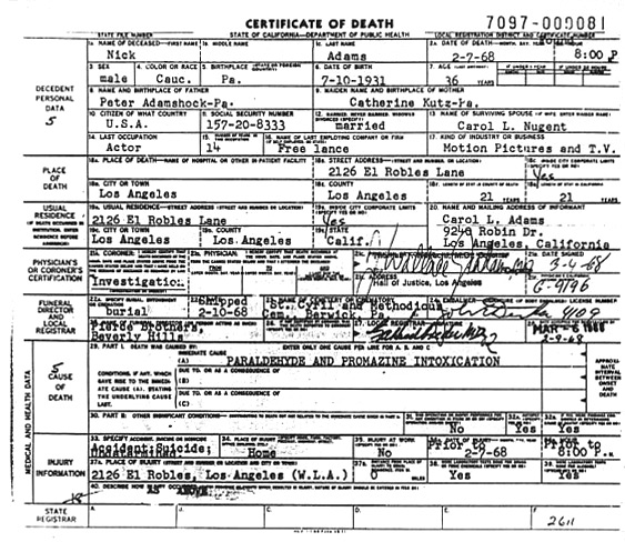 Nick Adams' death certificate.